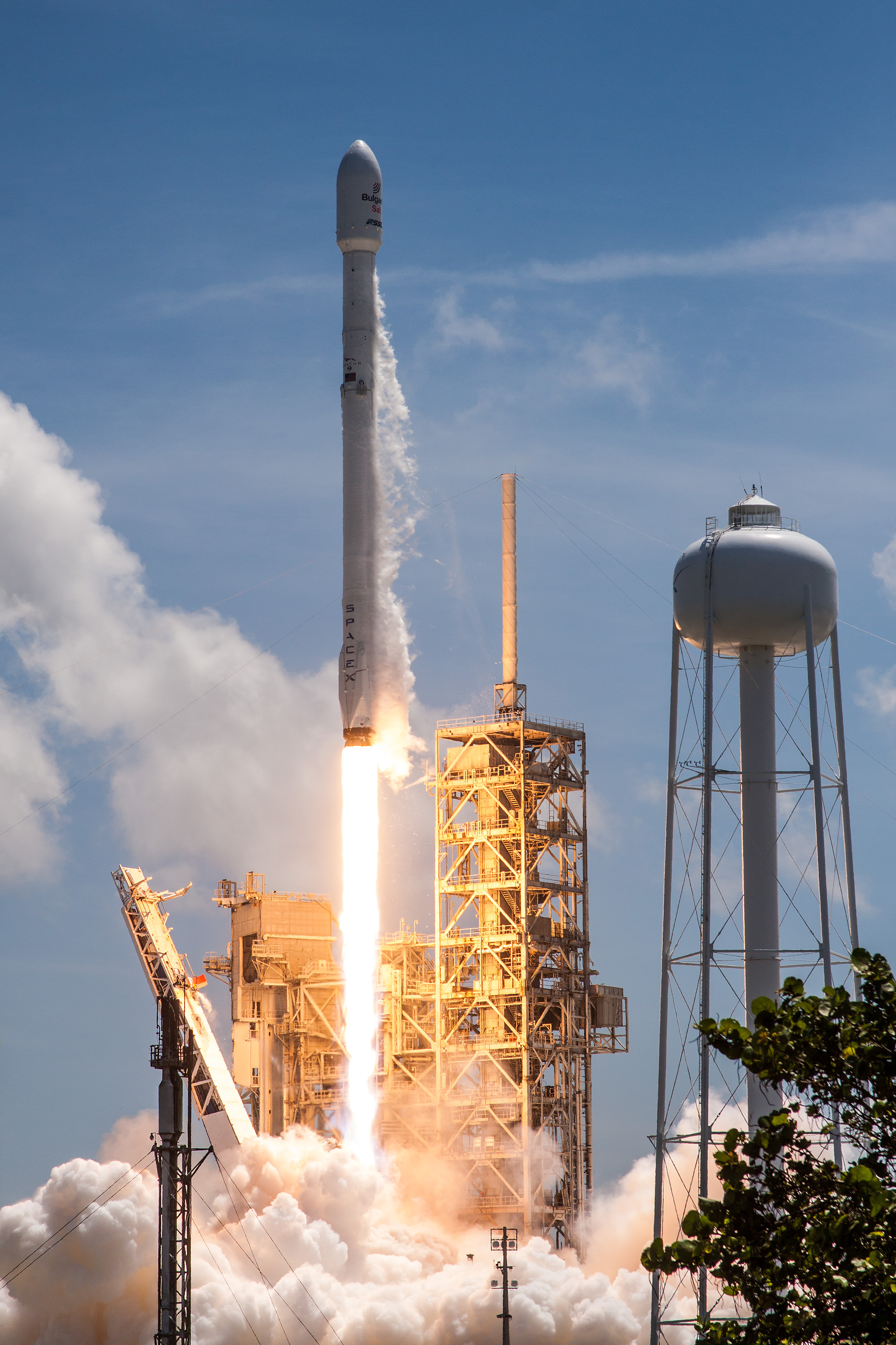 BulgariaSat-1 Mission